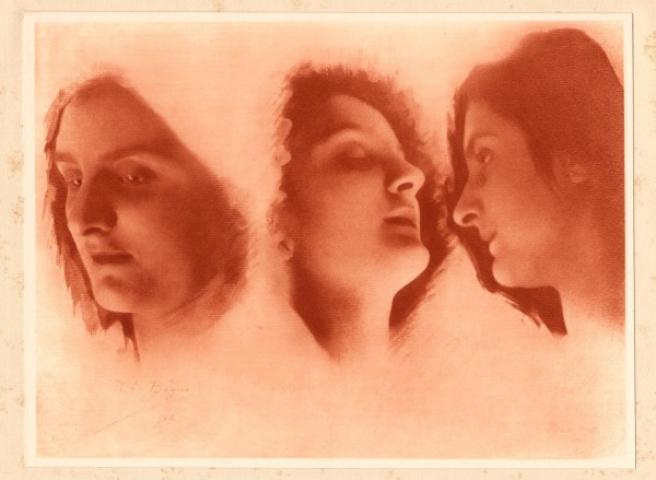 Study of Heads